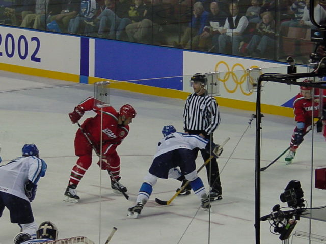 Finland vs. Belarus in a final round game at the 2002 Winter Olympics.